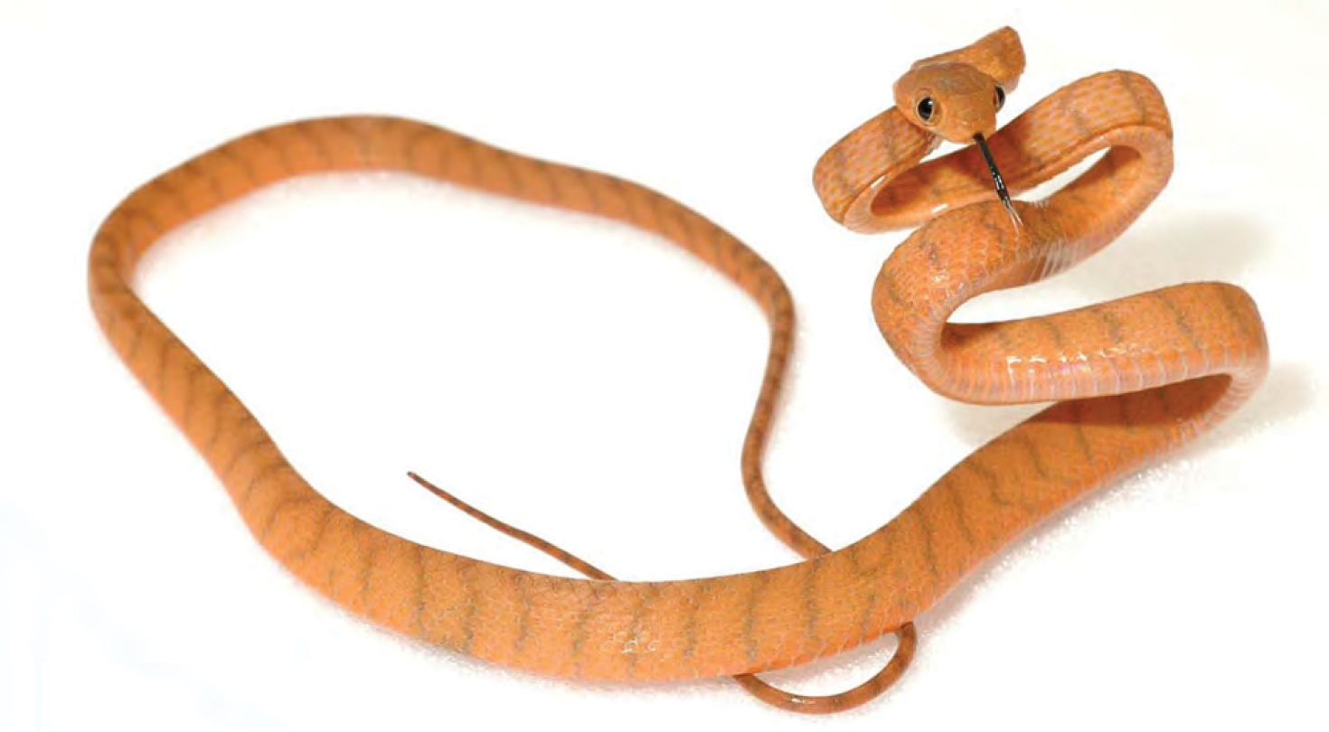 Boiga philippina (KU 307435) from Barangay Nassiping, Gattaran. Photo: ACD.